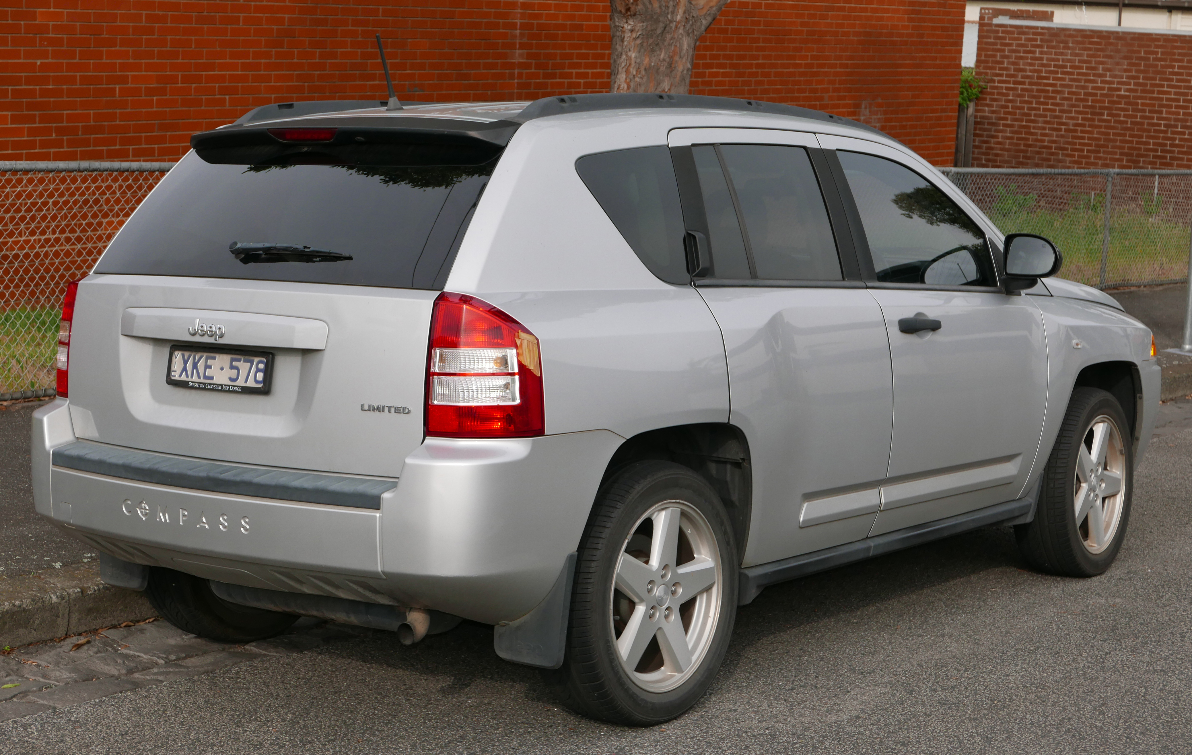 2008 Jeep Compass (MK MY08) Limited 2.4 wagon. Photographed in Flemington, Victoria, Australia. Vehicle registration enquiry resultsJurisdictionVictoriaRegistrationXKE578Chassis code1J8F757W78D535059Engine code8D535059Compliance date2008-09Year of manufacture2007 (not a typo)